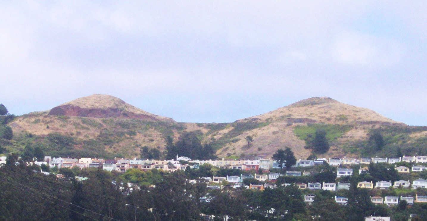 San Francisco's Twin Peaks as seen from the west